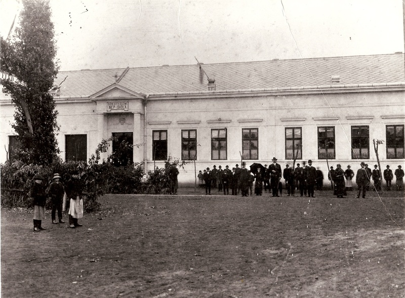 The Greek Catholic Primary School of Hajdúdorog, Hungary. The picture was taken in 1913 on the occasion of the consecration of the first bishop of the Greek Catholic Diocese of Hajdúdorog.